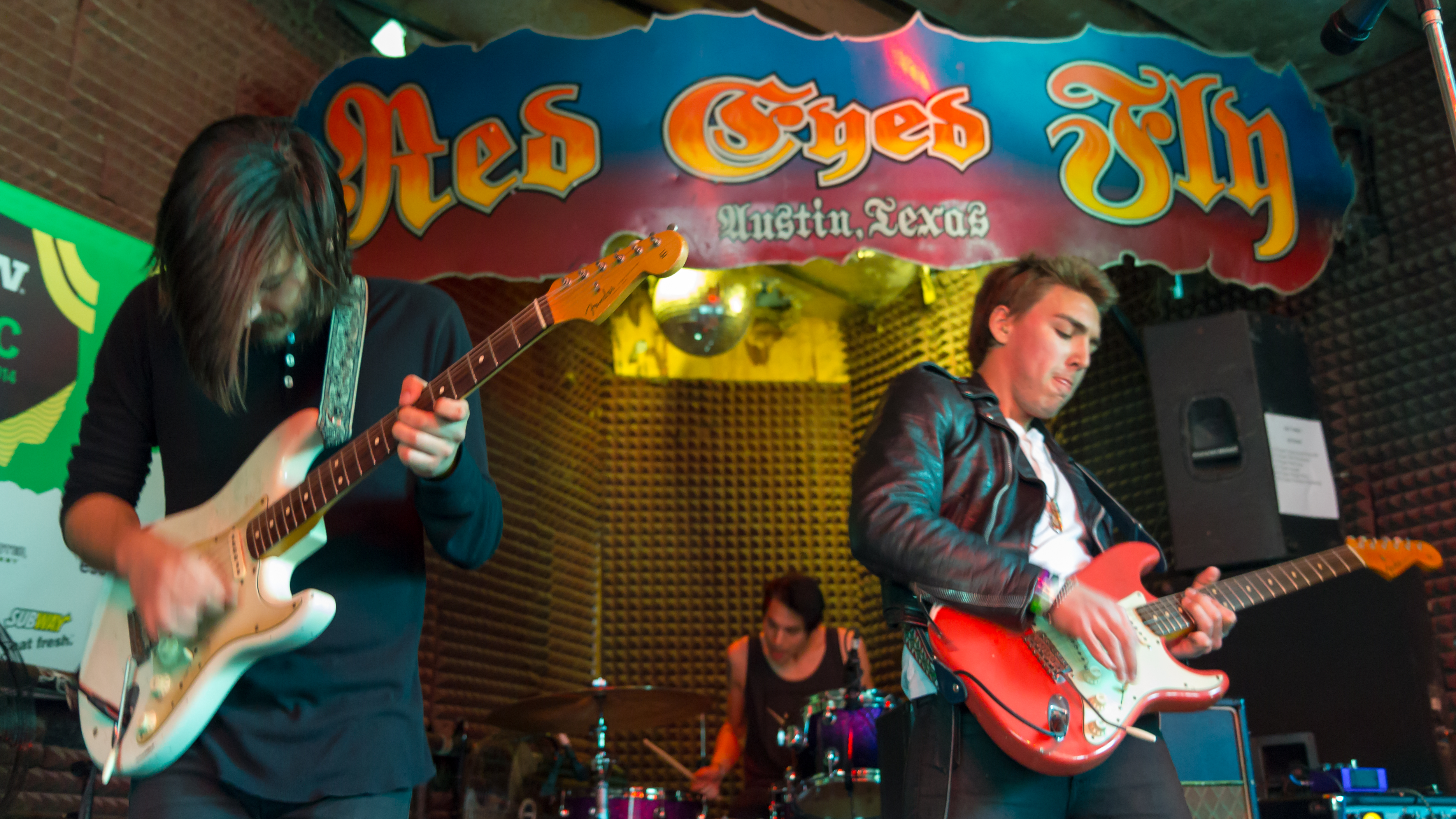 Bad Suns performing